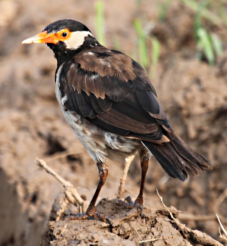 Pied Myna. Mohali, Punjab